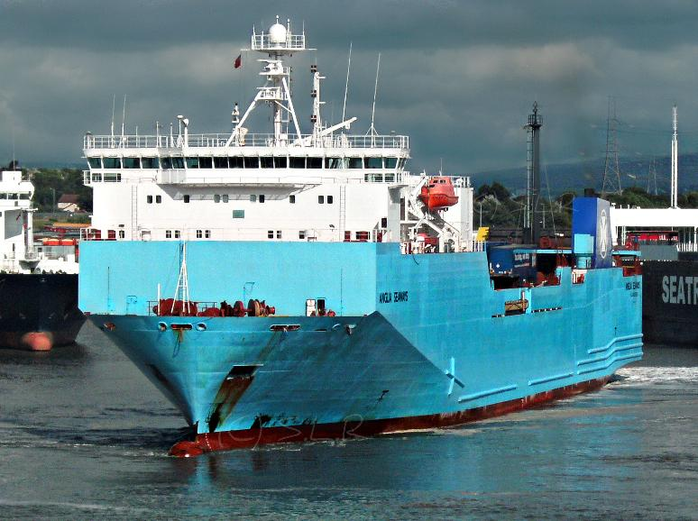 Heysham